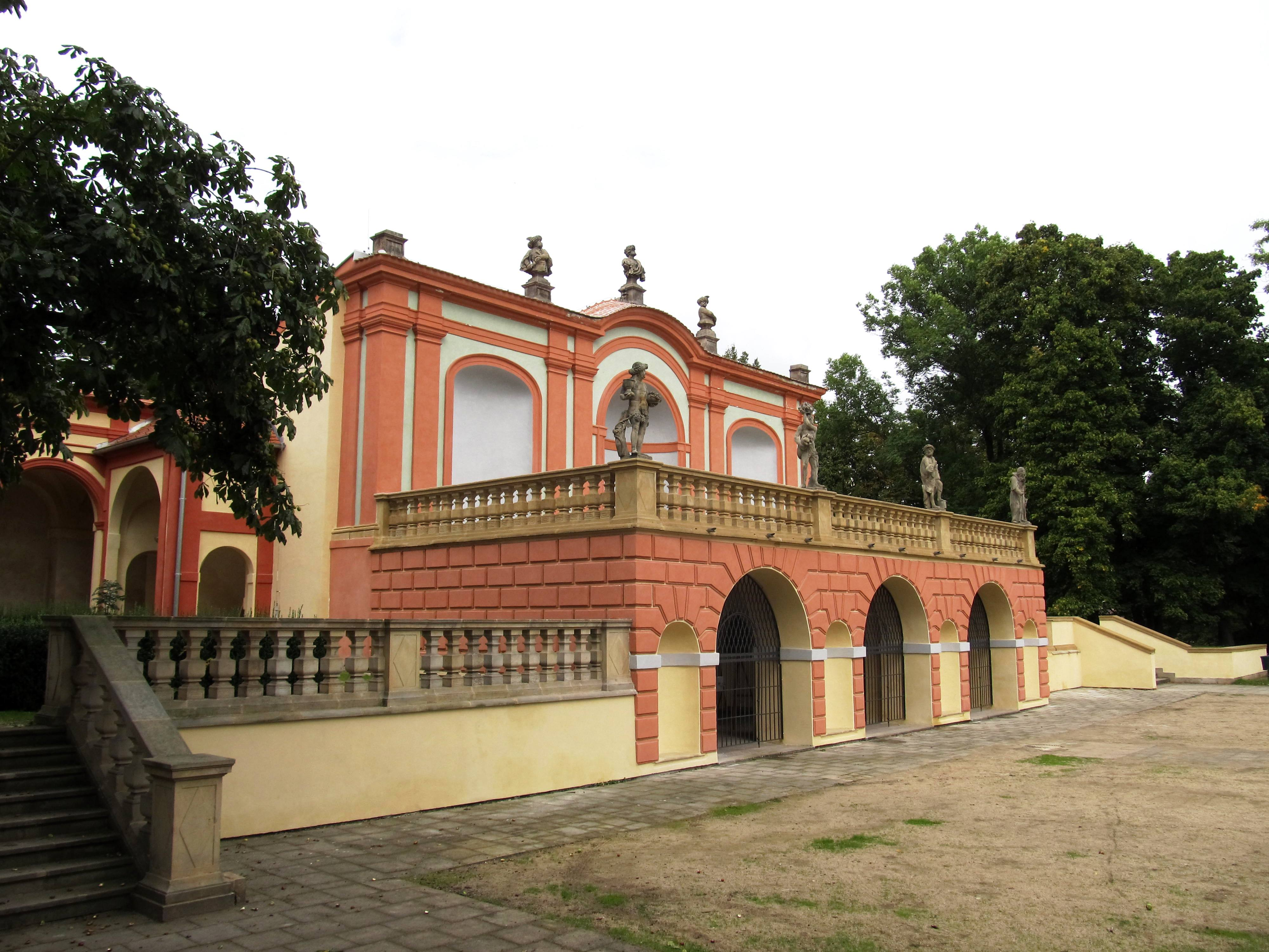 Klasterec nad Ohri, castle, sala terrena